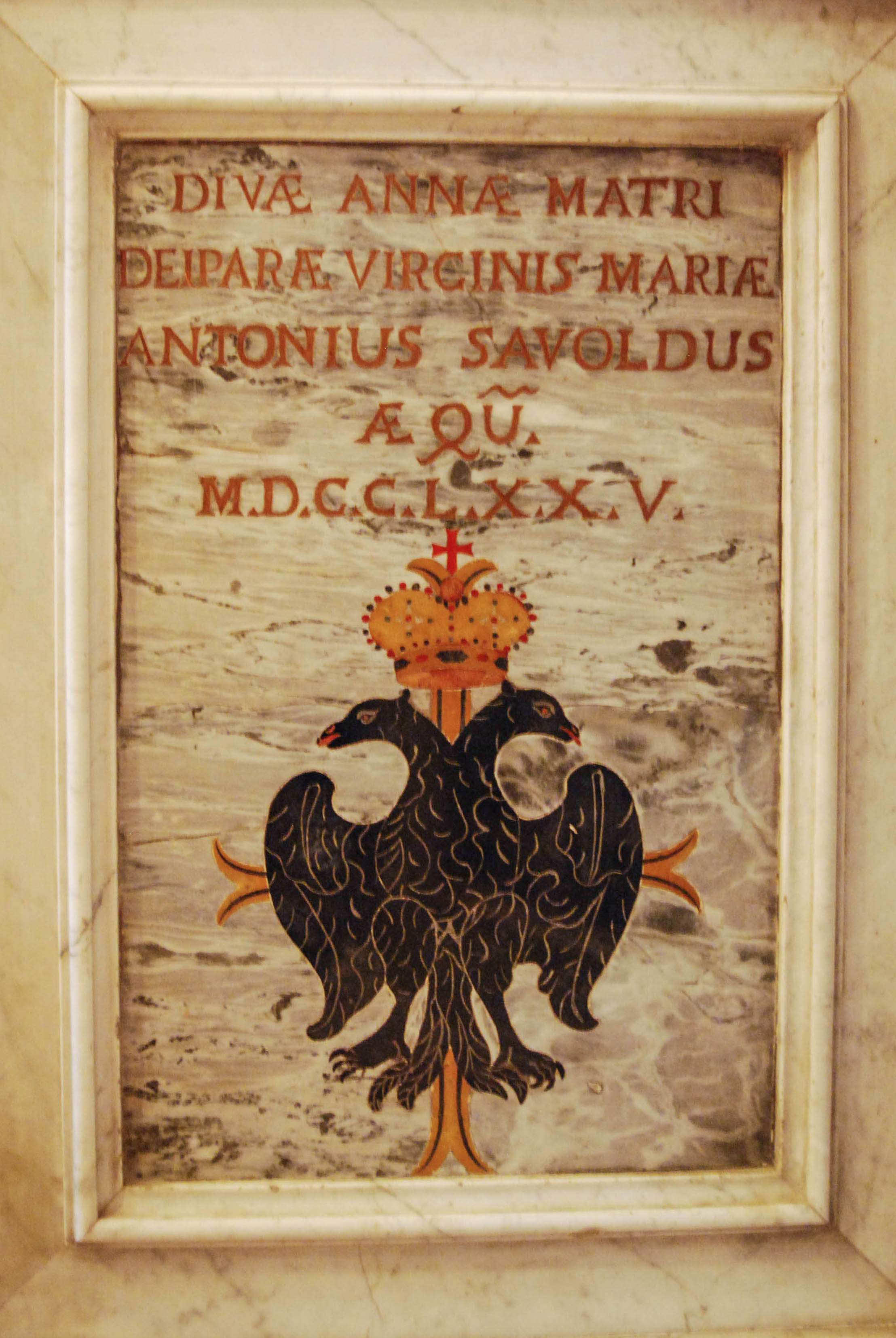 Madonnina del boschetto, aisle of Sant Anna, epigraph with crest of Antonio Savoldi, Knight of Holy Roman Empire